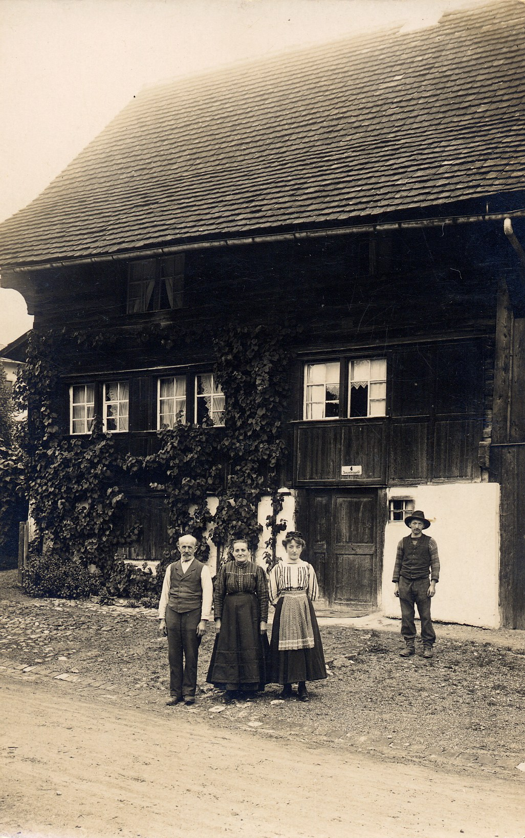 House Zanzenberggasse 4 in Dornbirn, Vorarlberg, Austria by Franz Josef Huber. Meanwhile aborted.